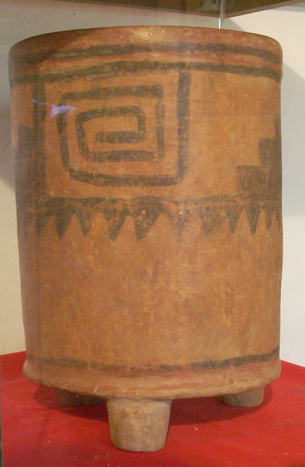 Cylindrical tripod polychrome vessel excavated at Takalik Abaj. Early Classic period, found on the Finca Buenos Aires. Retalhuleu, Guatemala.